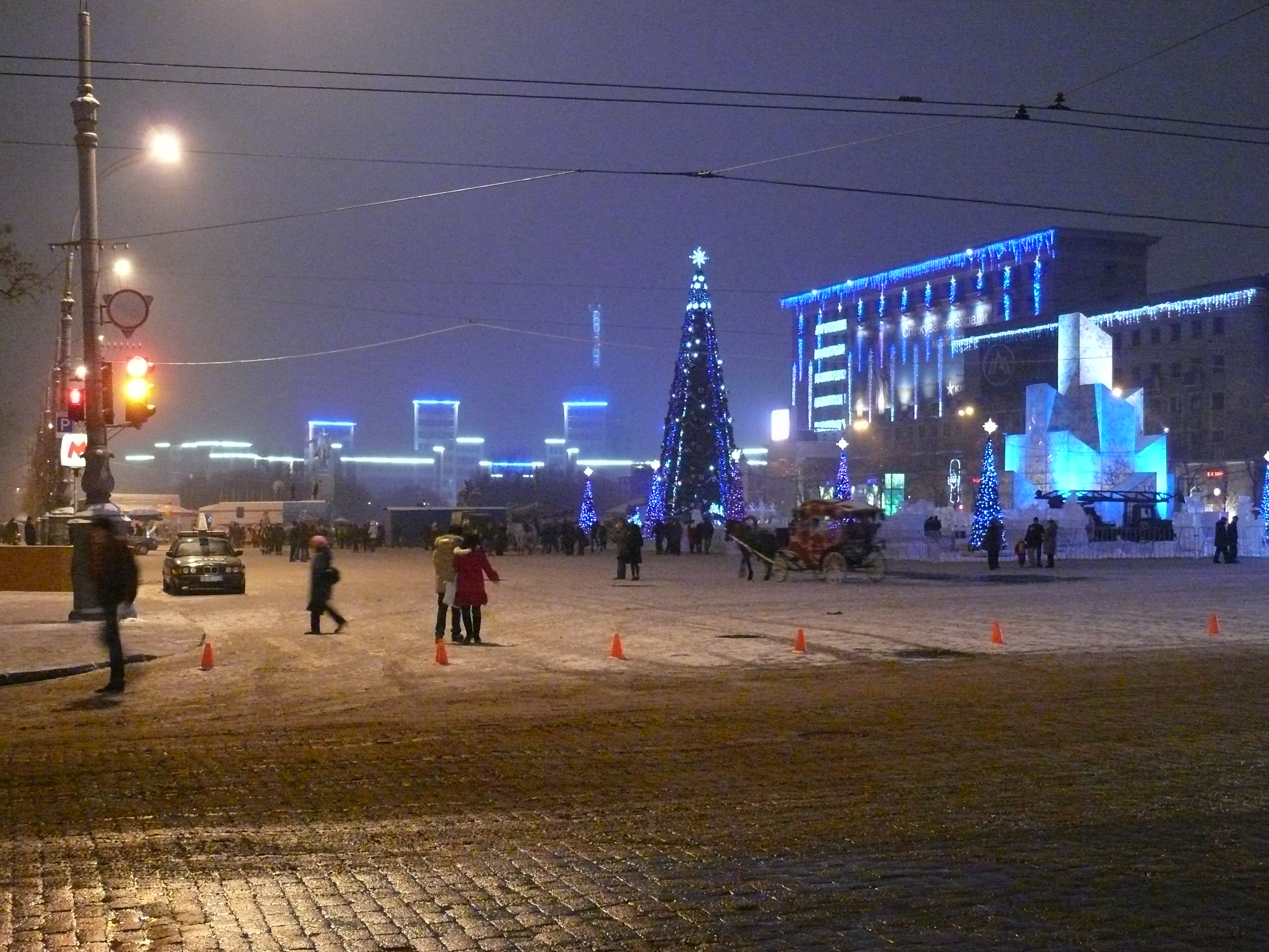 Freedom Square in Kharkiv New Year Night 2009. Night Gosprom.